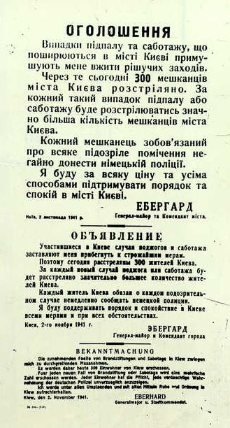 German message of killing people in Kiev